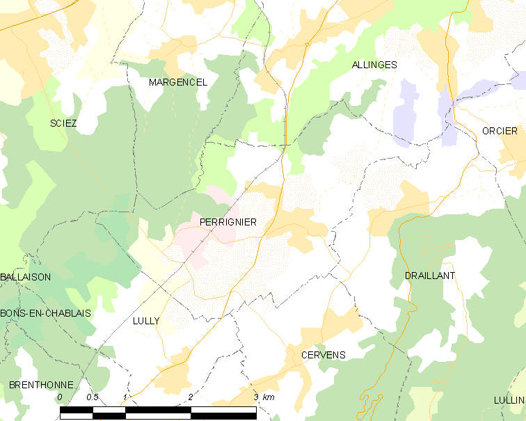 Map of French municipality Perrignier